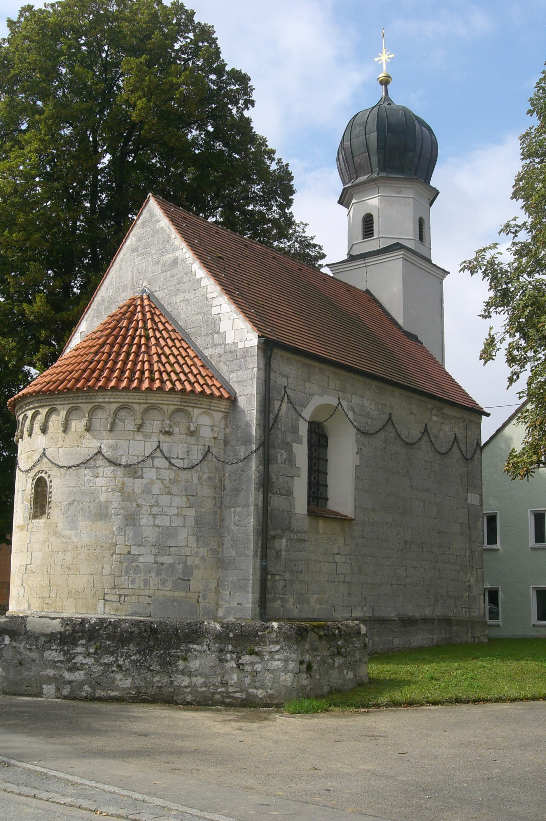 Saint Leonard church in Tholbath near Theißing seen from northeast. Small Romanic building, sanctified in 1190, neo-baroque tower added at the westside in 1907.